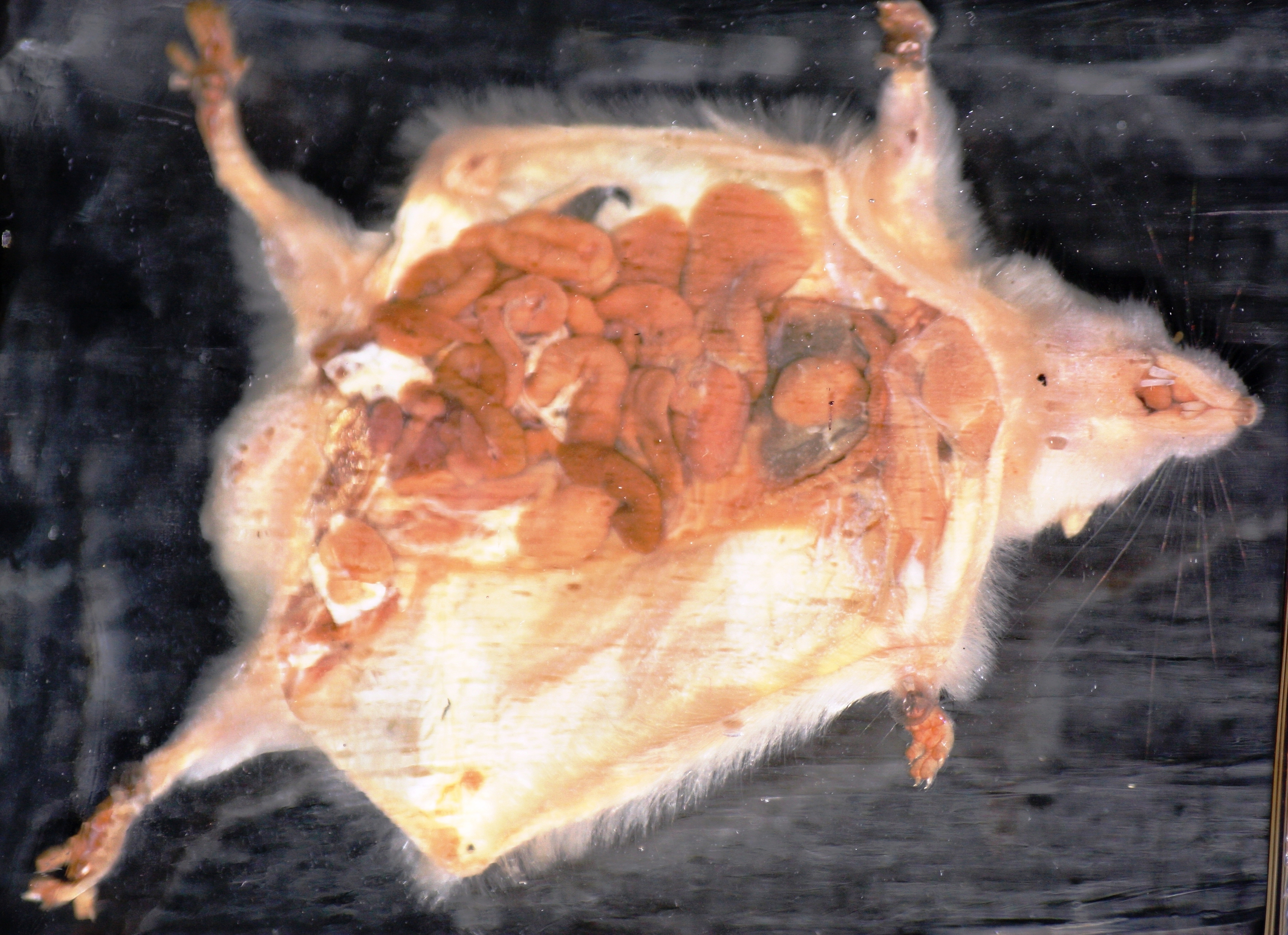 Spirits-conserved mouse from the Institute of Pathology, University of Oslo. Historical collection. Tenisk Museum, Oslo.